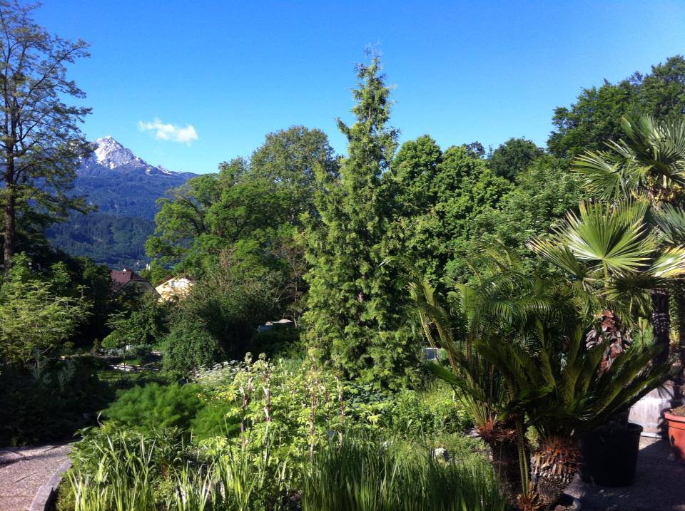 Botanical Garden of the University of Innsbruck